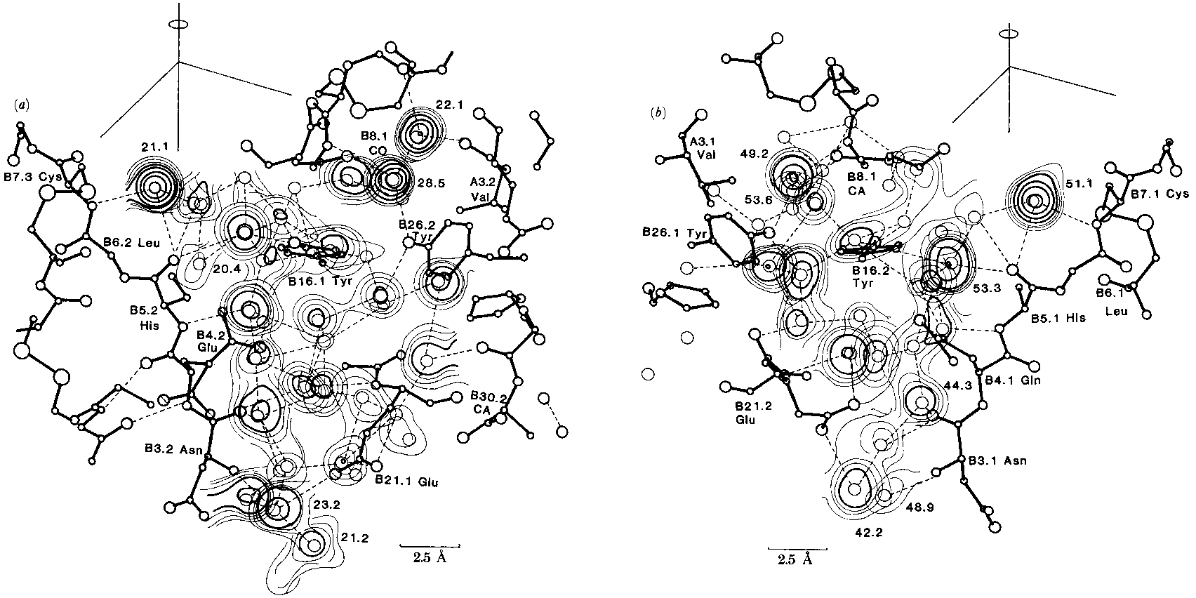 Карта электронной плотности цинк-связывающего фрагмента инсулина.